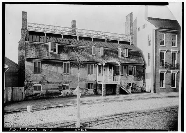 House located at 10 State Circle (currently 21 State Circle) in Annapolis, owned by cabinetmaker John Shaw from 1784 until his death in 1829